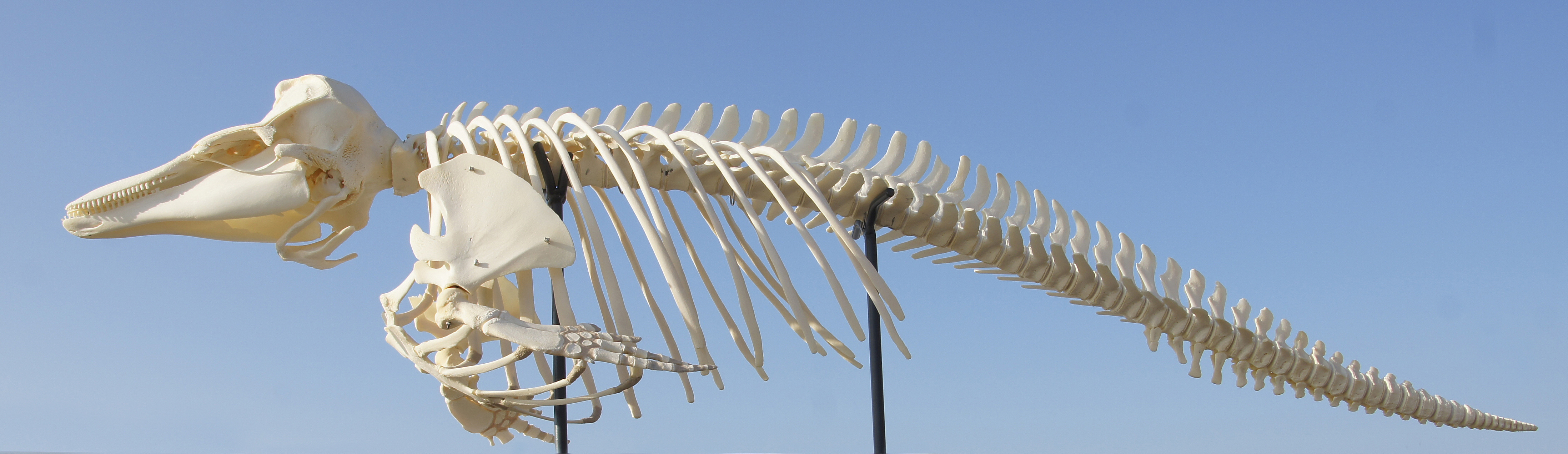 harbour porpoise skeleton, Ecomare